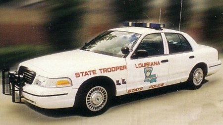 Louisiana State Police Crown Victoria Patrol Car